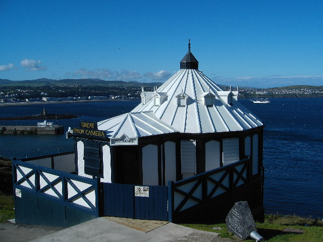 Camera Obscura, Douglas, Isle of Man